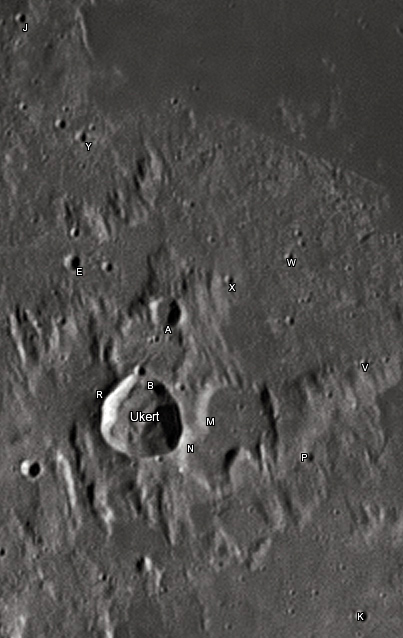 Ukert lunar crater as seen from Earth with satellite craters labeled